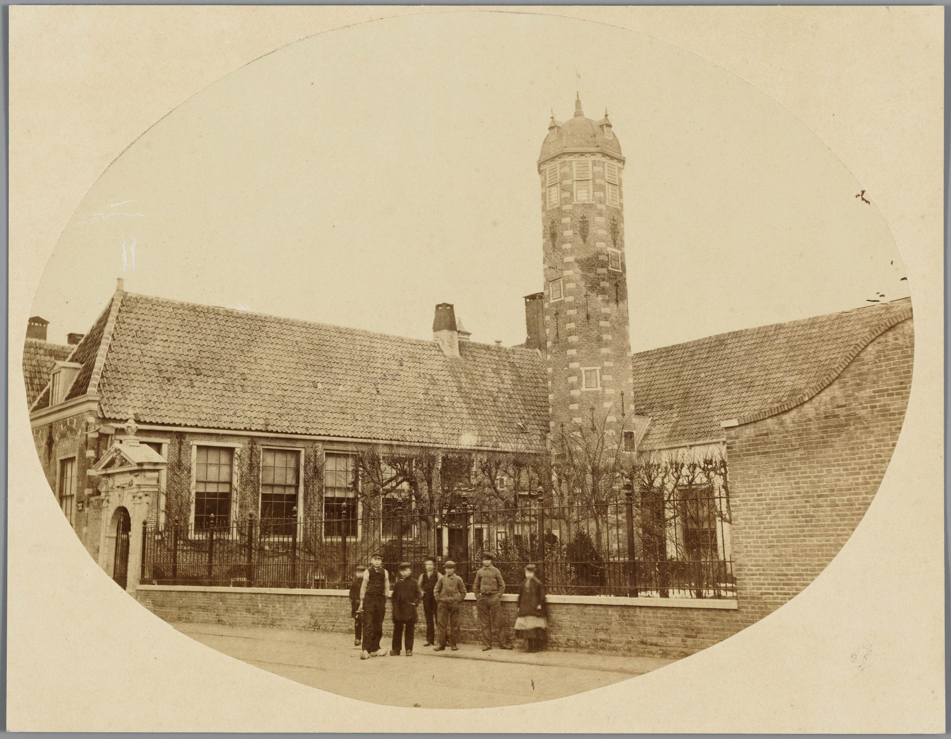 'Hof van Sonoy' in 1865.